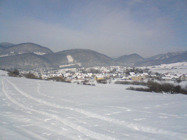 Belá, Žilina District